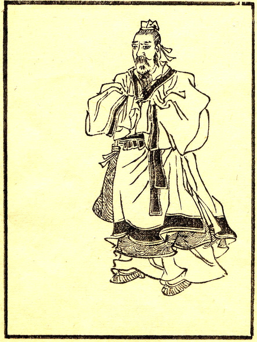 Guo Pu (traditional